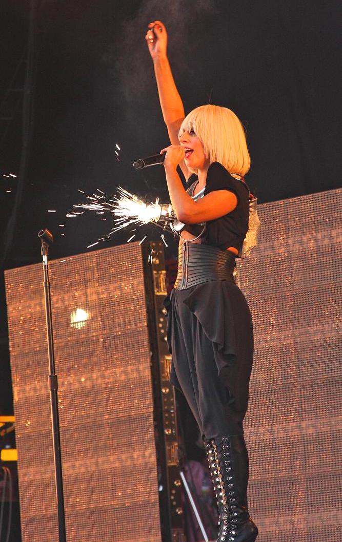 Lady Gaga performing her song "Eh Eh (Nothing Else I Can Say)" at Glastonbury, 2009